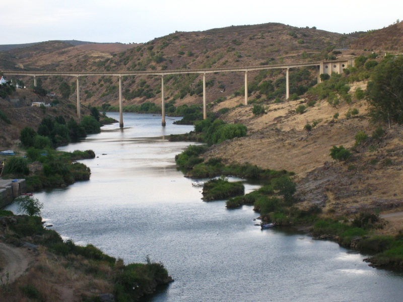 Guadiana river passes Mertola, Portugal